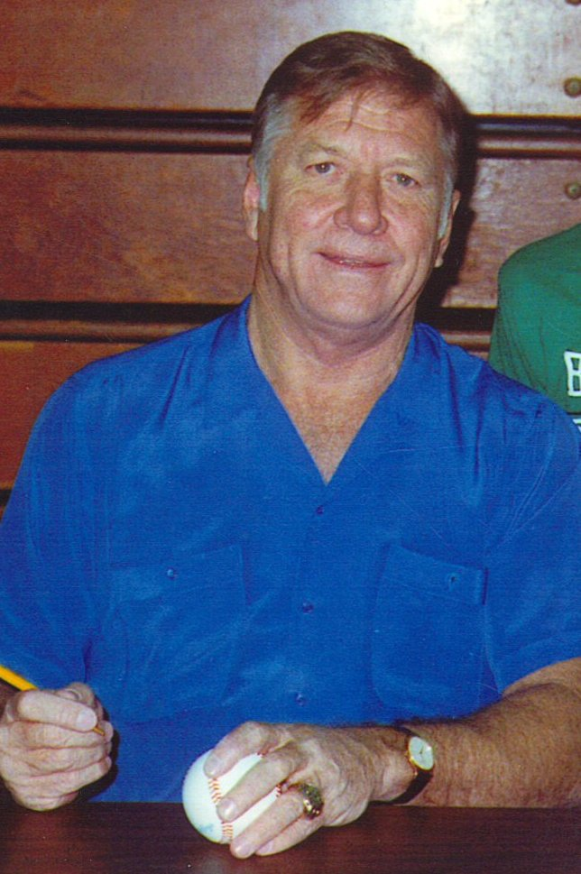 Mickey Mantle signs autographs at the Cobb County Civic Center in Marietta, GA, 1988.